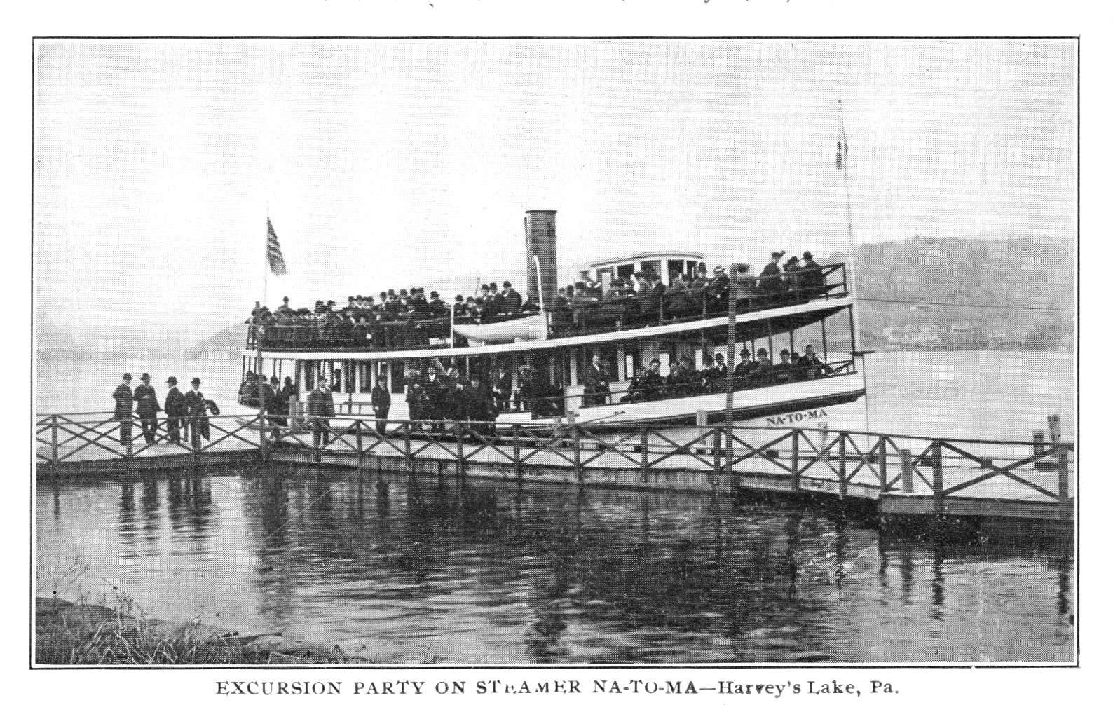 A photograph (postcard) of Harveys Lake, PA